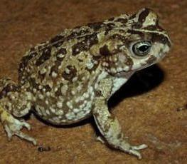 Cape Sand Toad - Vandijkophrynus angusticeps. Cape Town.